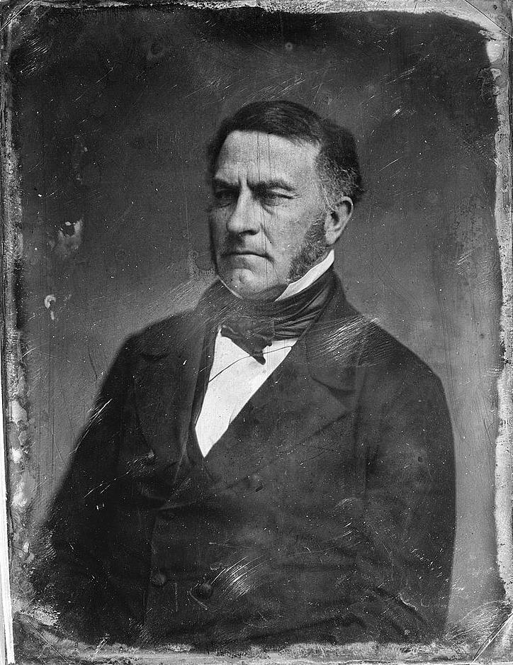 Aaron Vanderpoel, Democratic Congressman from New York, 1833-1837, 1839-1841.